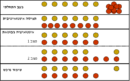 Conservation of number in children by Jean Piaget.